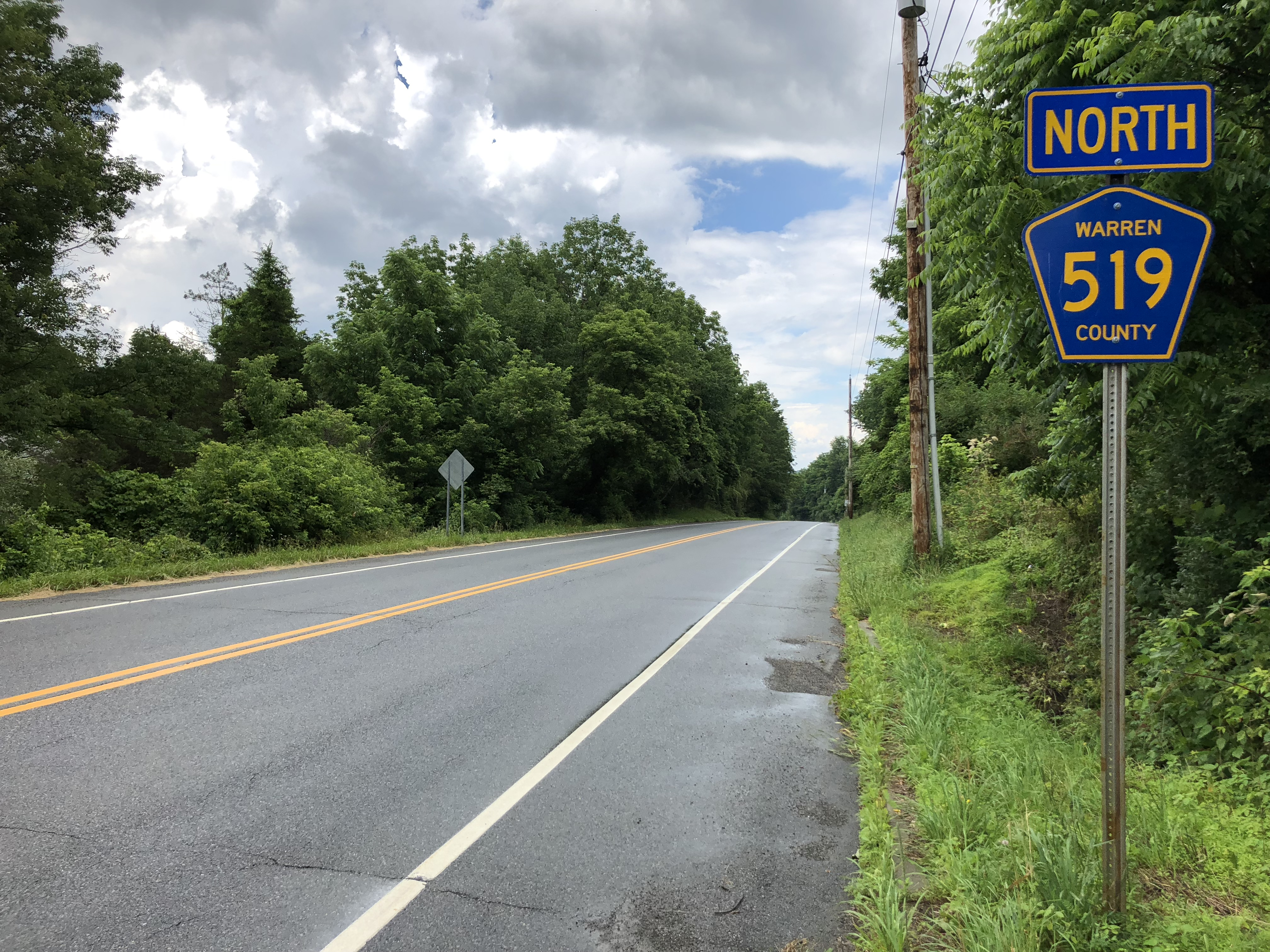 View north along Warren County Route 519 (Hope-Johnsonburg Road) just north of Warren County Route 661 (Main Street) in Frelinghuysen Township, Warren County, New Jersey